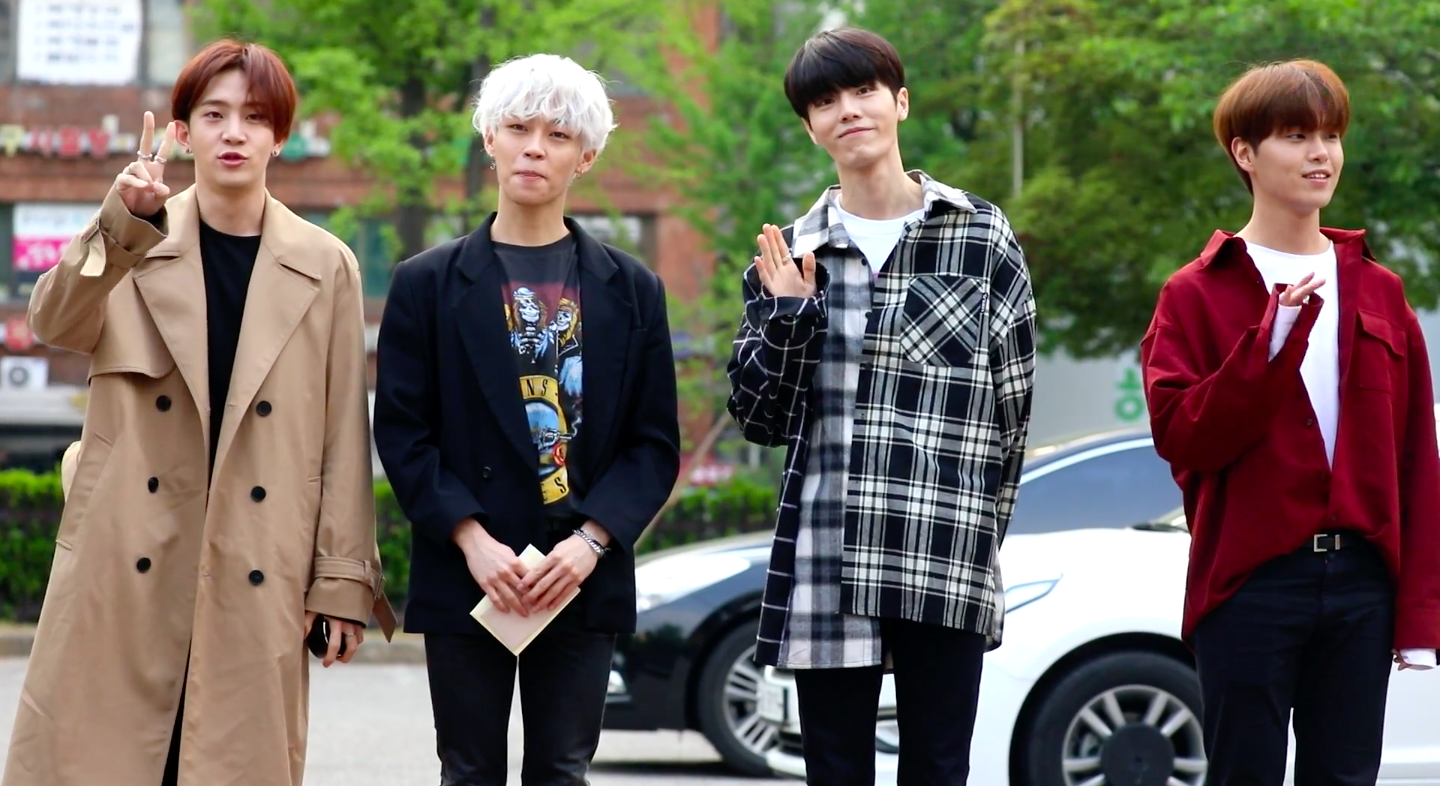 South Korean boy band The Rose meeting reporters outside KBS in April 2018.